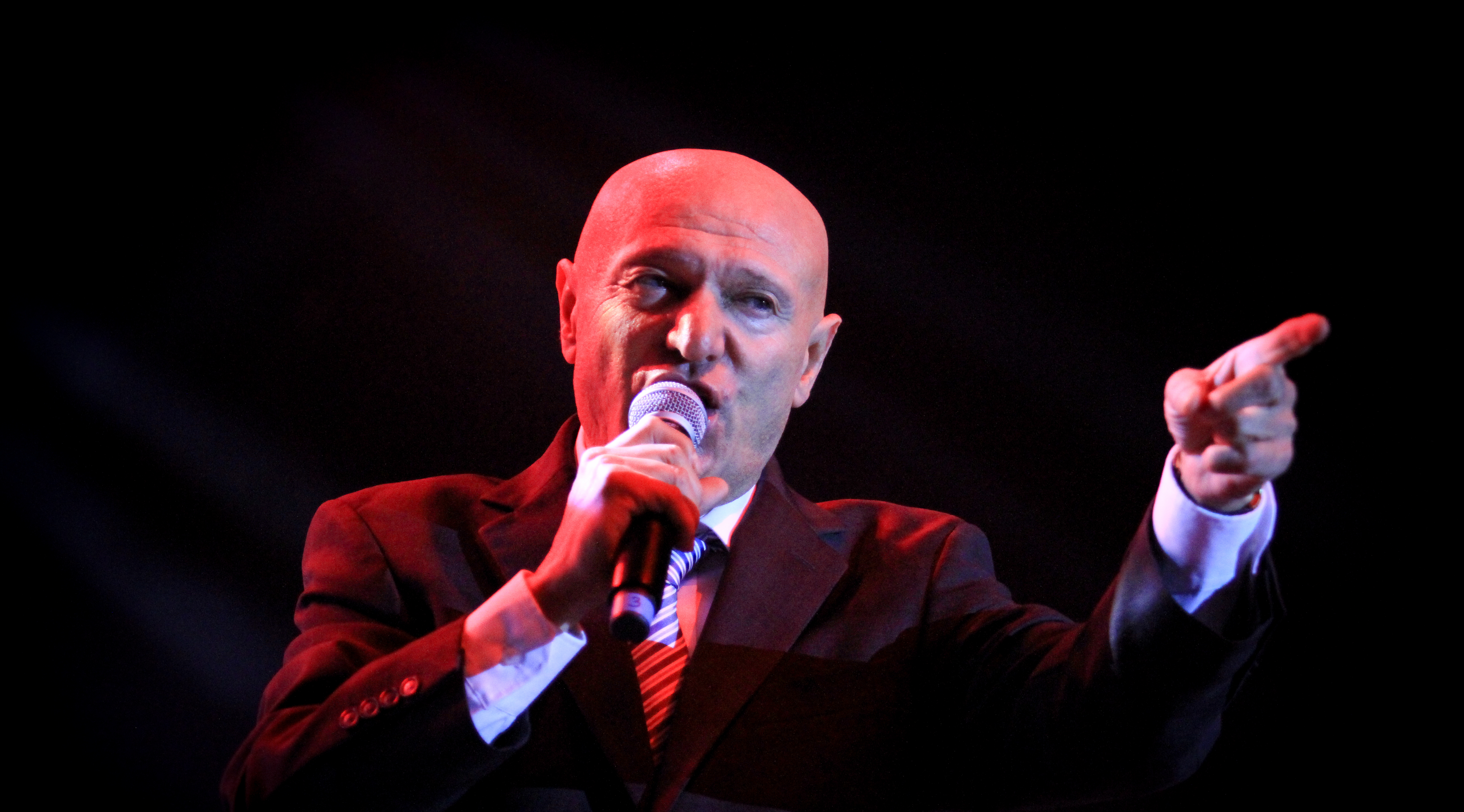 Šaban Šaulić (Serbian Cyrillic: Шабан Шаулић; born 6 September 1951) is a Serbian folk and pop-folk singer. He is currently one of the judges on the televised singing contest Zvezde Granda.